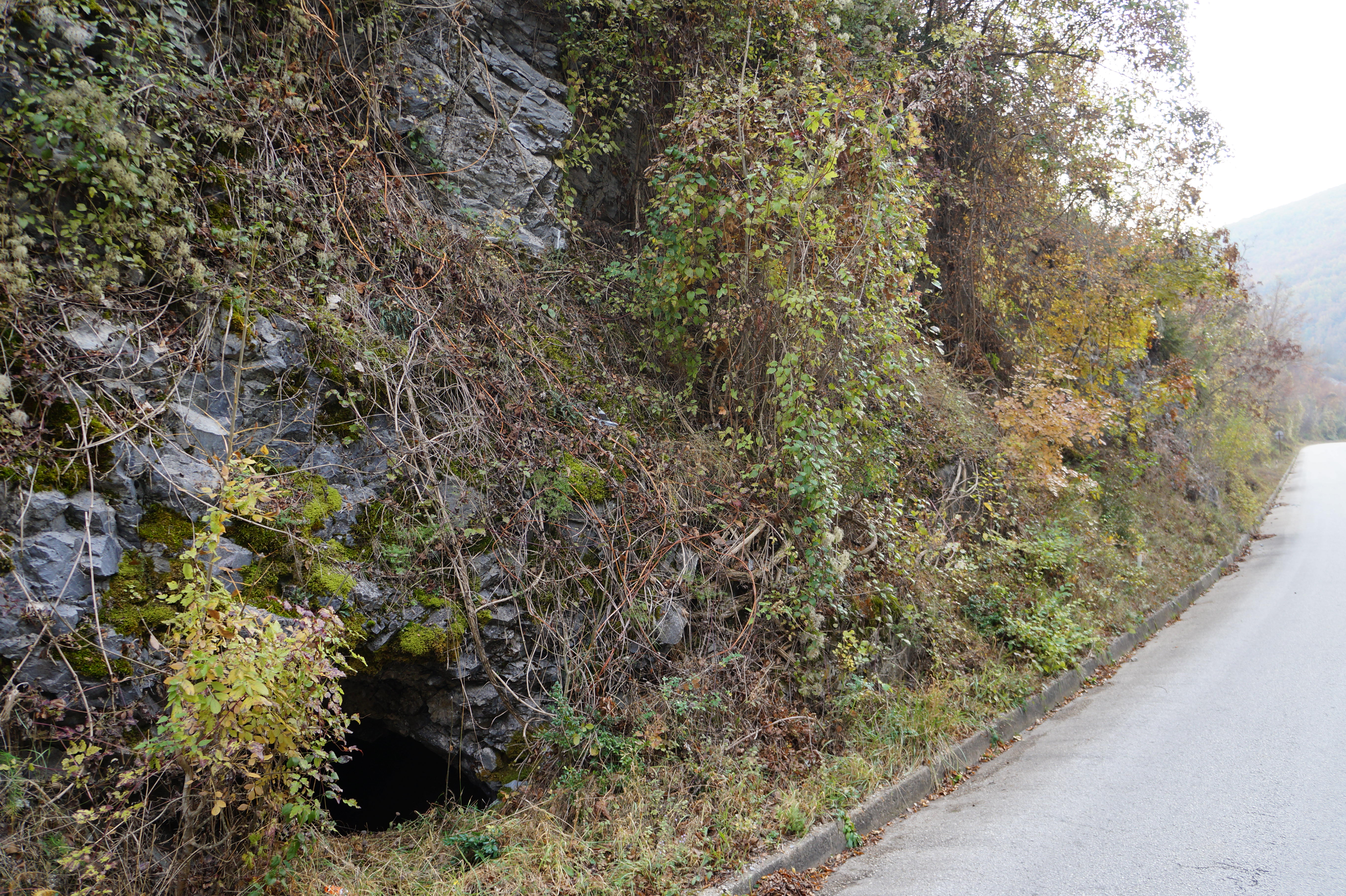 Janoa II cave in Porece region, Macedonia